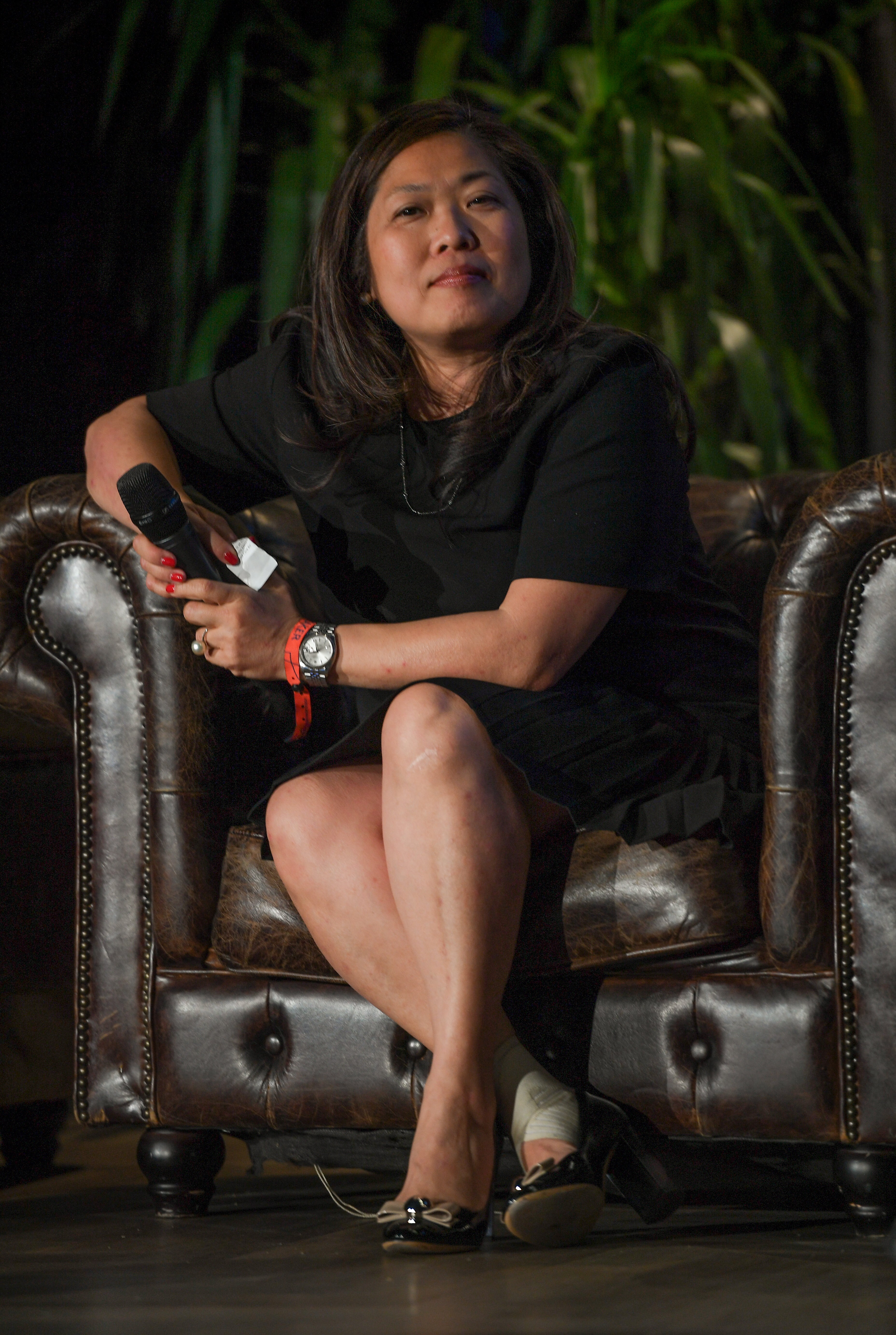 21 May 2019; Mary NG, Minister for Small Business and Export Promotion, Canada, on CIS Stage during day one of Collision 2019 at Enercare Center in Toronto, Canada. Photo by Eóin Noonan/Collision via Sportsfile